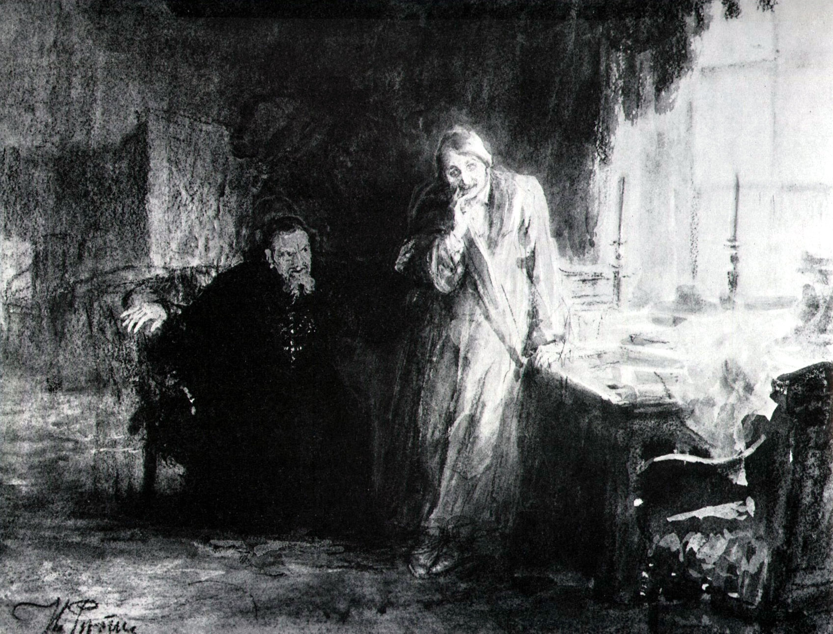 Nikolai Gogol and Father Matthew Konstantinovsky